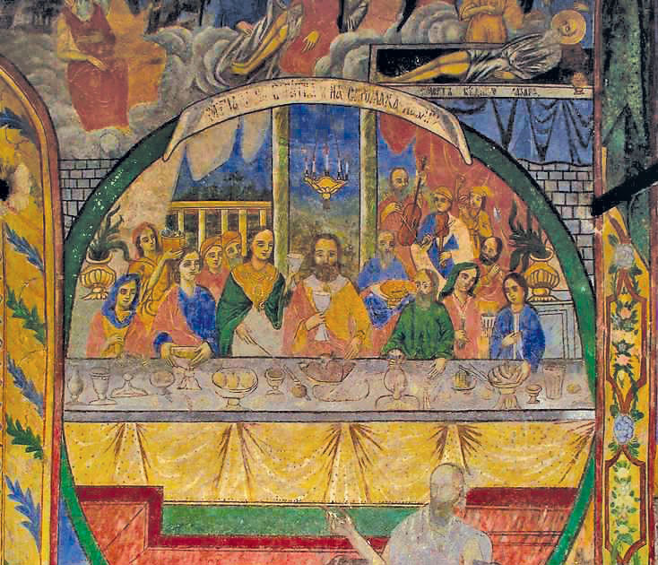 Last Supper by Mihalko Golev in Presentaton of Mary Church in Gorna Dzhumaya